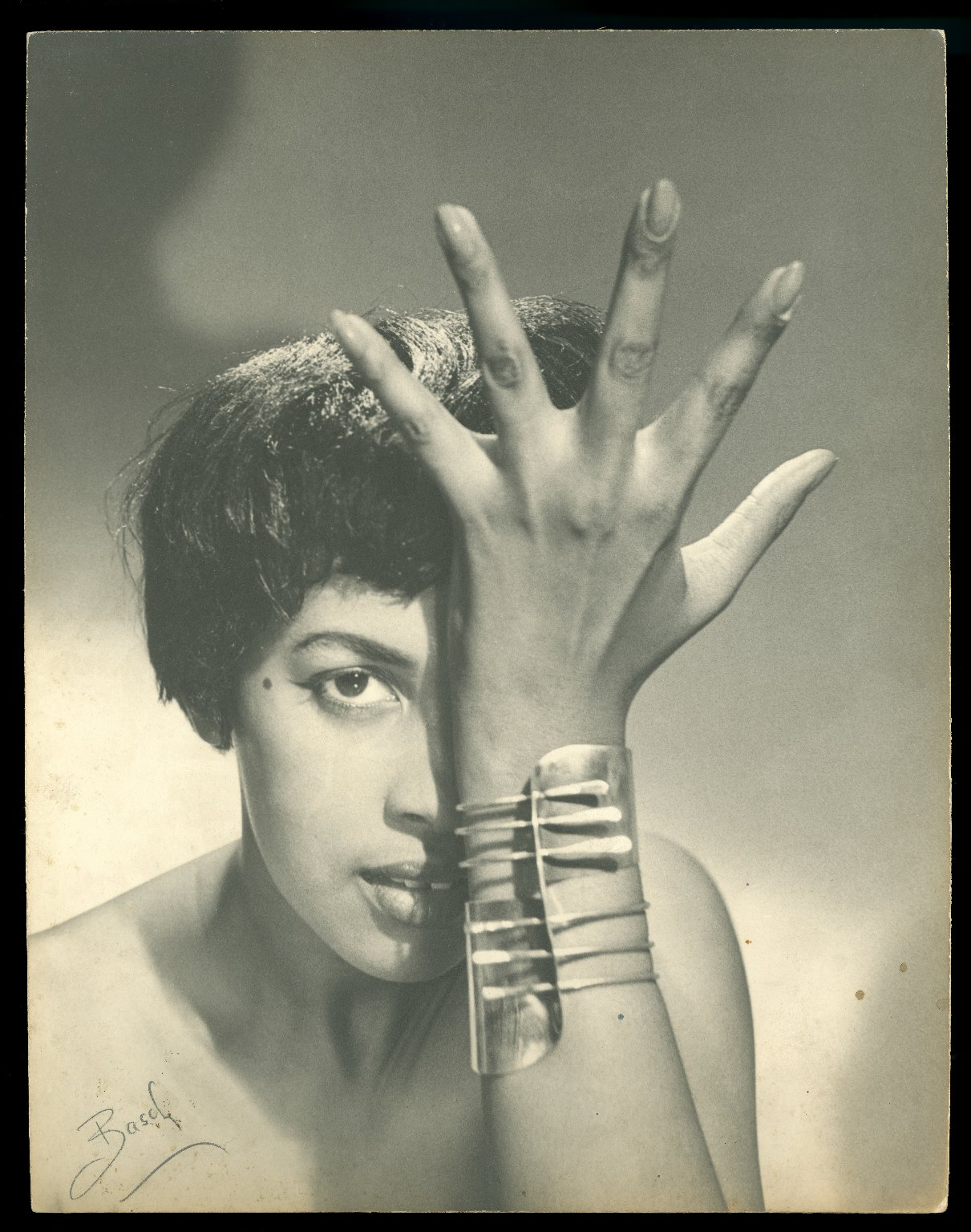 Model wearing the "modern cuff" bracelet by Art Smith. Art Smith (American, born Cuba, 1917-1982). "Modern Cuff" Bracelet, designed ca. 1948. Silver, 1 5/8 x 2 1/2 x 4 in. (4.1 x 6.4 x 10.2 cm). Brooklyn Museum, Gift of Charles L. Russell, 2007.61.15. Creative Commons-BY (Photo: Peter Basch, courtesy of Estate of Peter Basch (1921-2004), SC03_Jewelry_on_models_001_2007.61.15_Peter_Basch_photo_SL1.jpg)